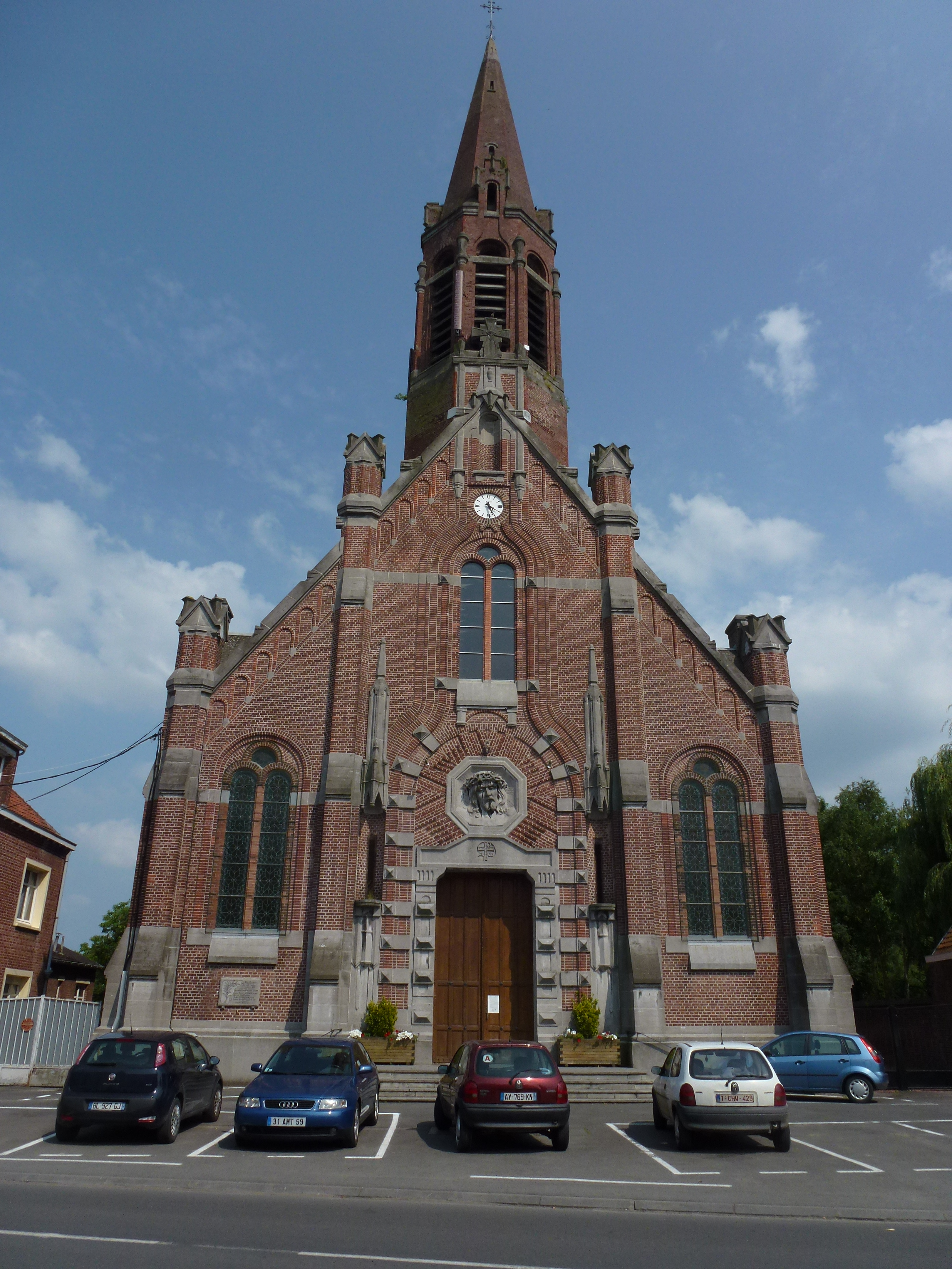 Mortagne-du-Nord (Nord, Fr) église